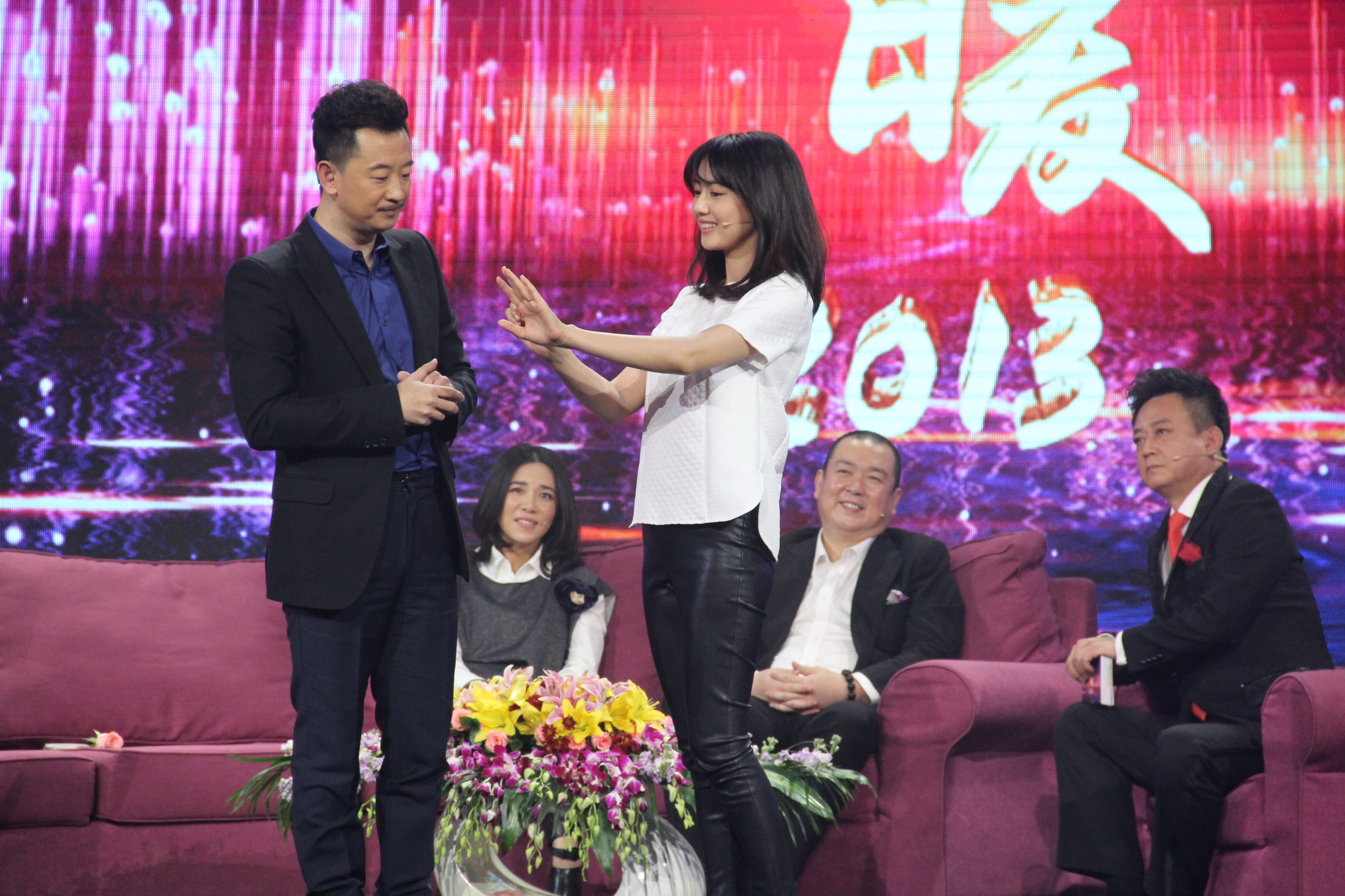 This photo was taken during the filming of Chinese talk show Art Life. In this episode, cast and director of popular TV drama We Let Married were invited.中文（中国大陆）: 这张图片于《艺术人生》的片场拍摄，这集邀请了《咱们结婚吧》的演员和导演。